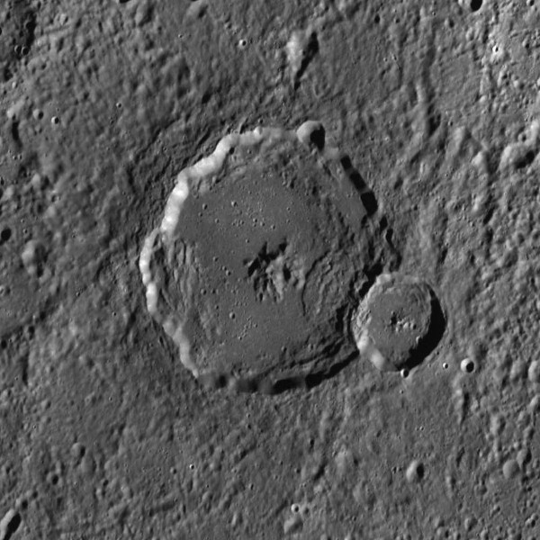 Akutagawa crater on Mercury. MESSENGER Wide Angle Camera mosaic. Image is approximately 200 km wide.